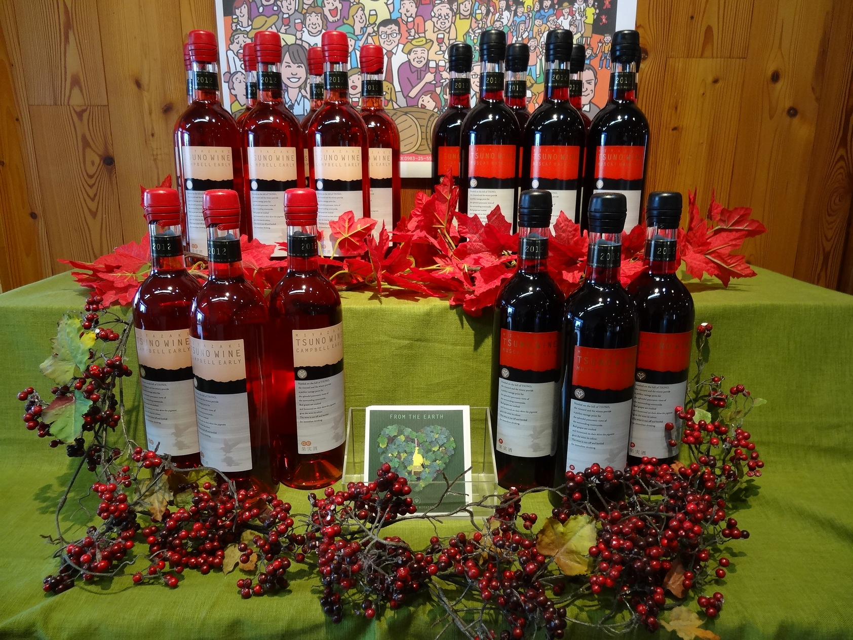 Tsuno Wine ([:en:Tsuno, Miyazaki